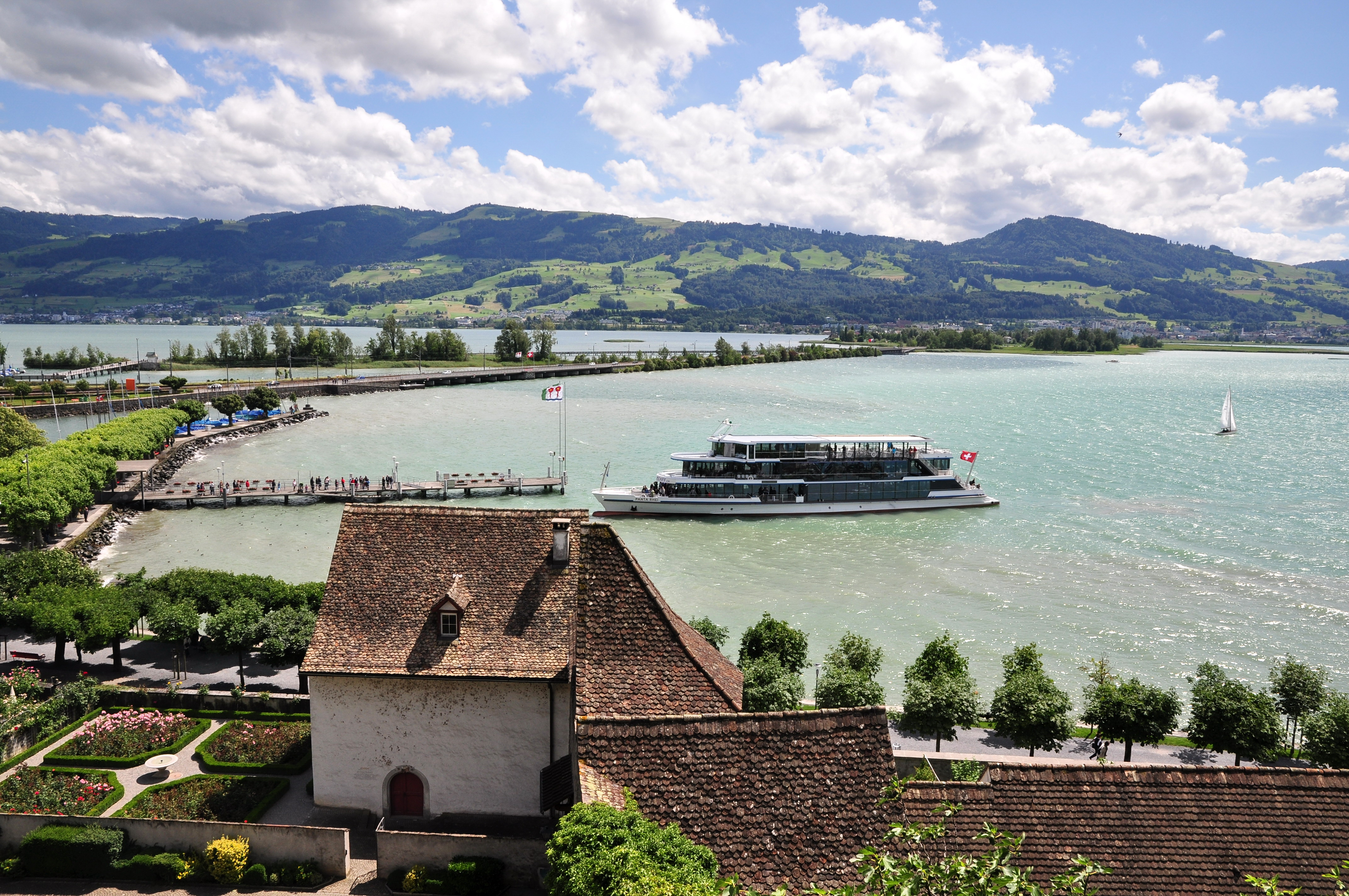 Rapperswil (Switzerland) : Altstadt and harbour, Zürichsee-Schifffahrtsgesellschaft (ZSG) motorship Panta Rhei at the landing gate, focus on Einsiedlerhaus and the rose garden, and, in the background, the wooden bridge (Holzbrücke) on Obersee and Seedamm as well as the Etzel mountain, as seen from the Lindenhof hill towards the castle (Schloss)